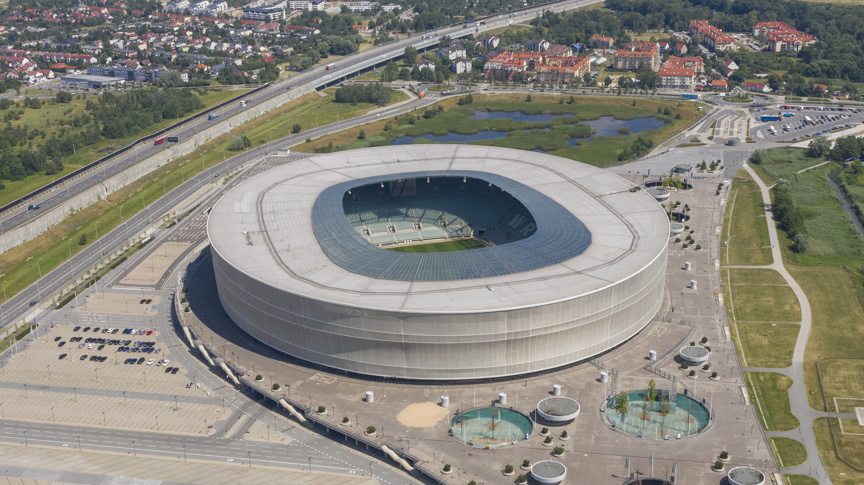 Wroclaw Munincipal Stadium